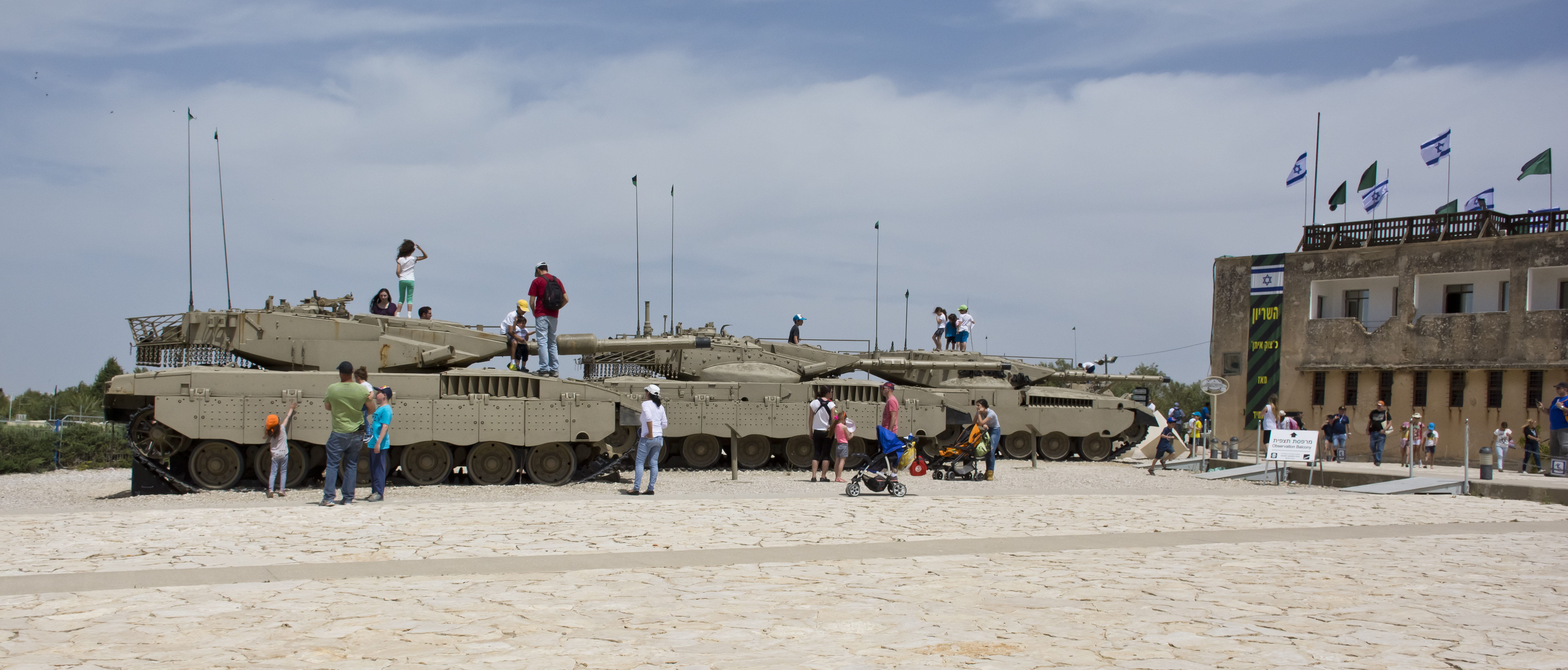 Yad LaShiryon (Armored Corps Memorial), Latrun, Israel